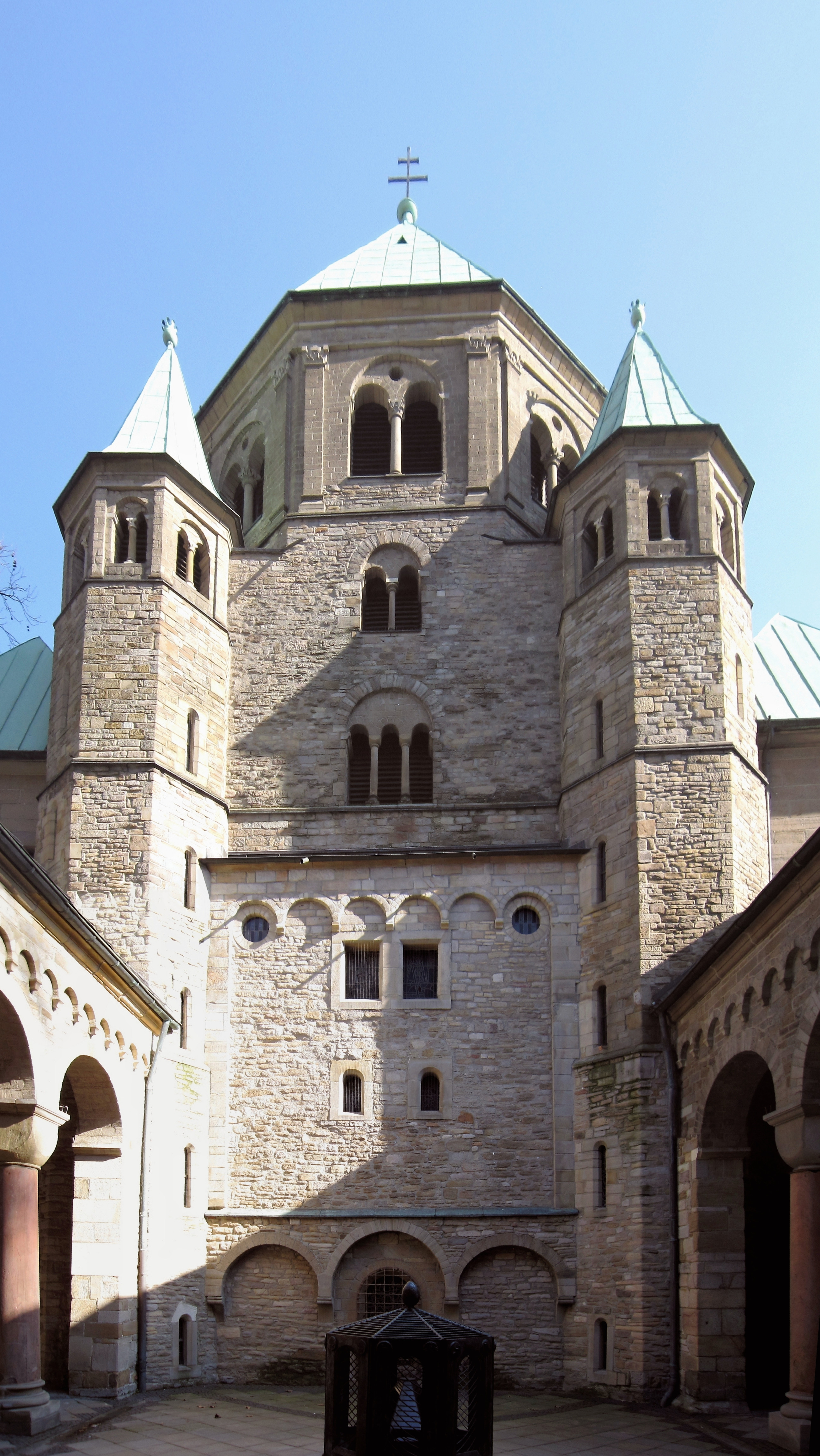 Essen Minster.